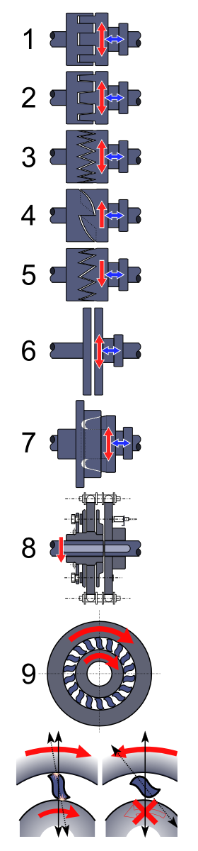 9 types of Clutch without labels